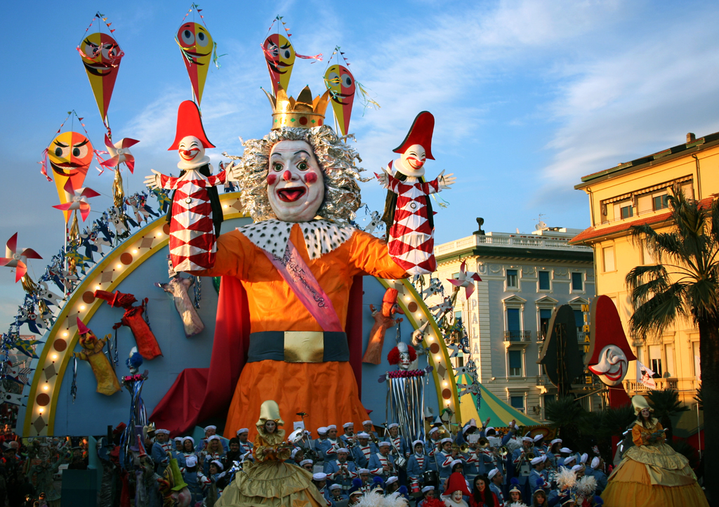 Master of puppets in Carnival of Viareggio - Italy.